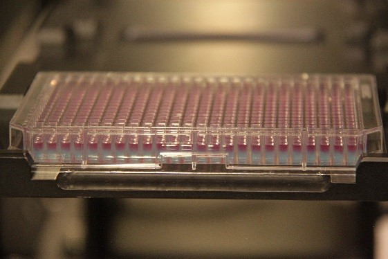 Nanofibrillar cellulose hydrogel and cell culture medium in 384-well plate